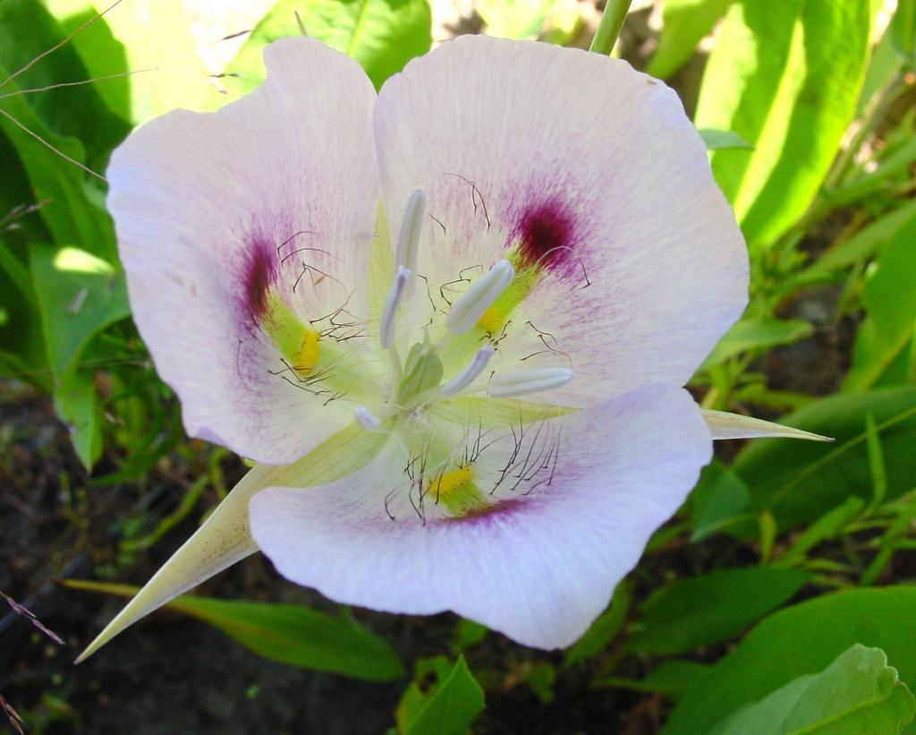 Description:Calochortus eurycarpus flower, on an overlook on Hell's Canyon, OR. Photo taken by: Noah Elhardt